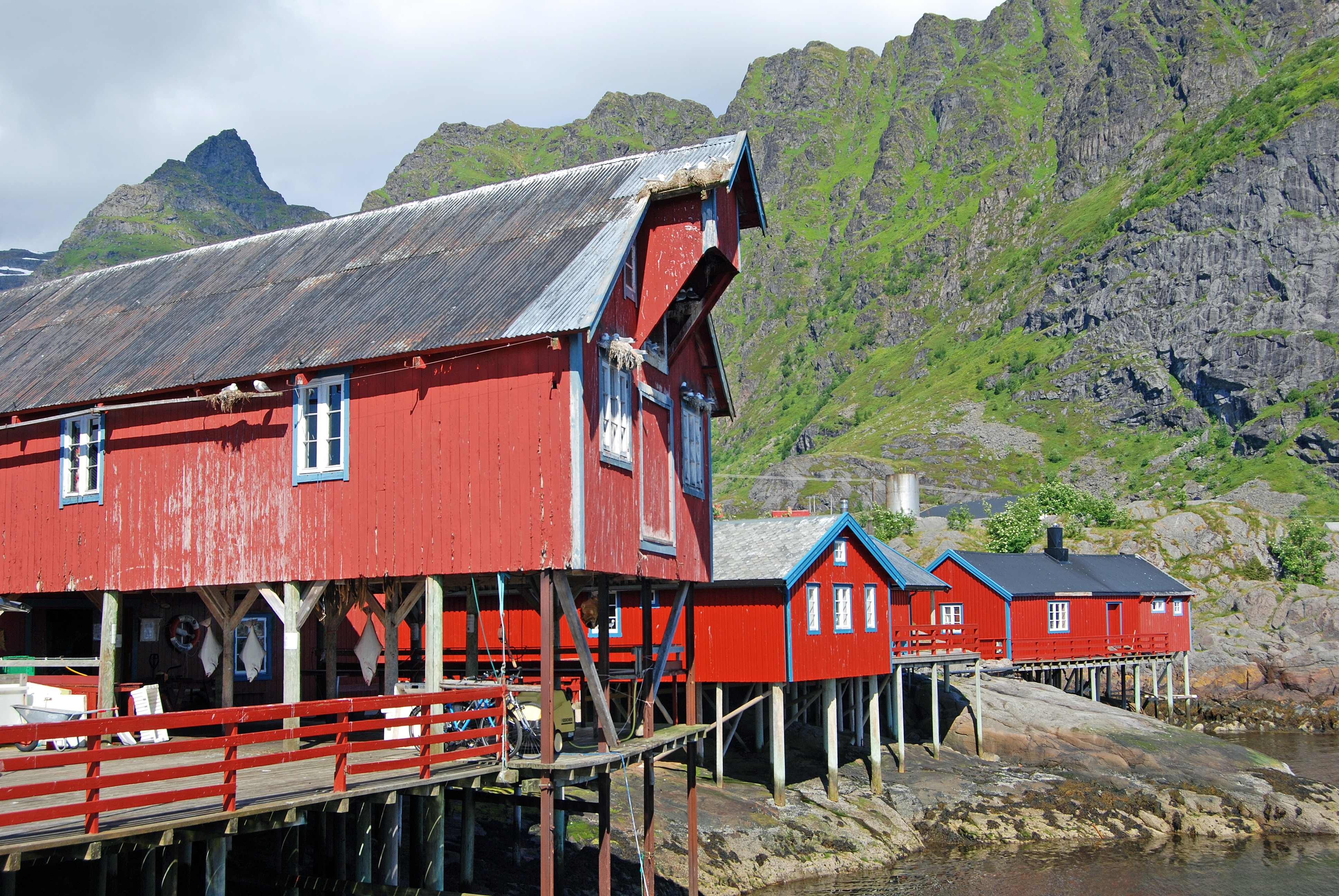 Nusfjord is one of Norway’s oldest and best-preserved fishing hamlets with a long-standing tradition of “Lofotfiske”, or seasonal cod fishing